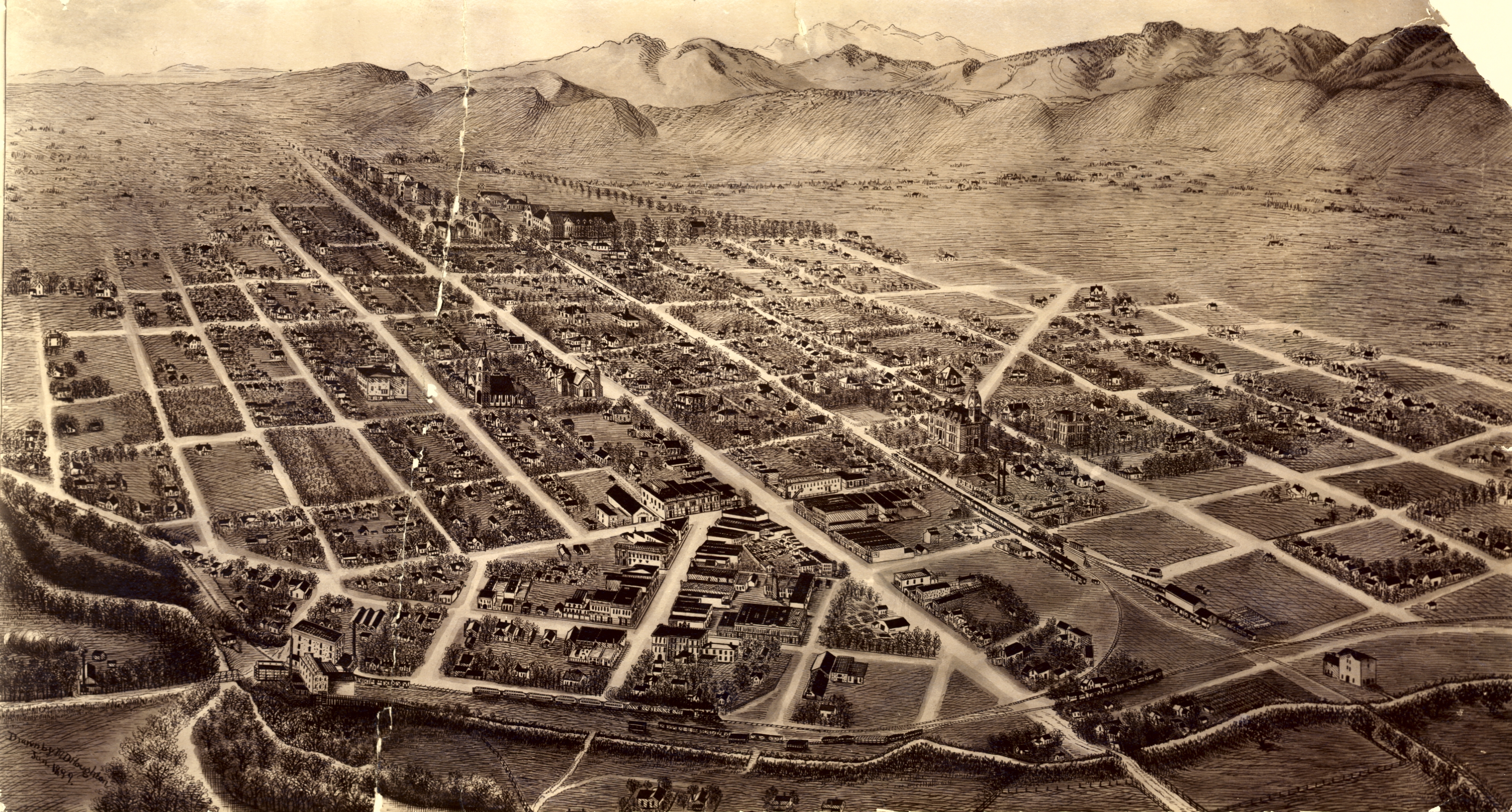 Nineteenth-century bird's-eye view of Fort Collins.